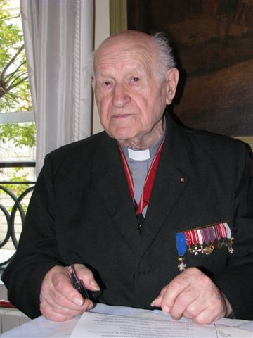 Witold Kiedrowski (b. April 16, 1912 in Buk Pomorski), Polish catholic priest, veteran of II World War II, combatant. He lives in Paris (France)